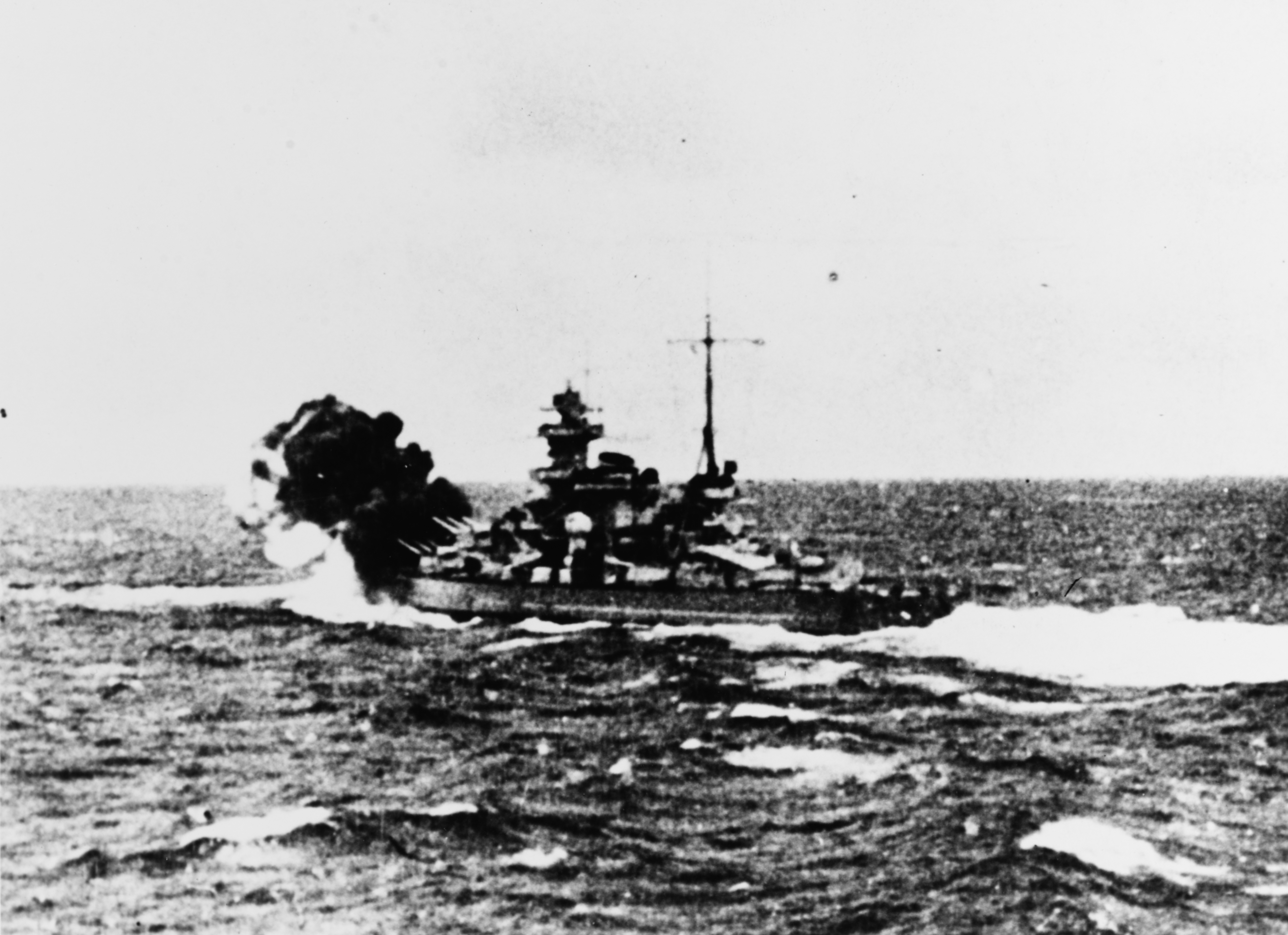 German battleship Scharnhorst firing her forward 283mm guns, during the engagement with the British aircraft carrier Glorious and her escorts, 8 June 1940. Photographed from the battleship Gneisenau. U.S. Naval History and Heritage Command Photograph.